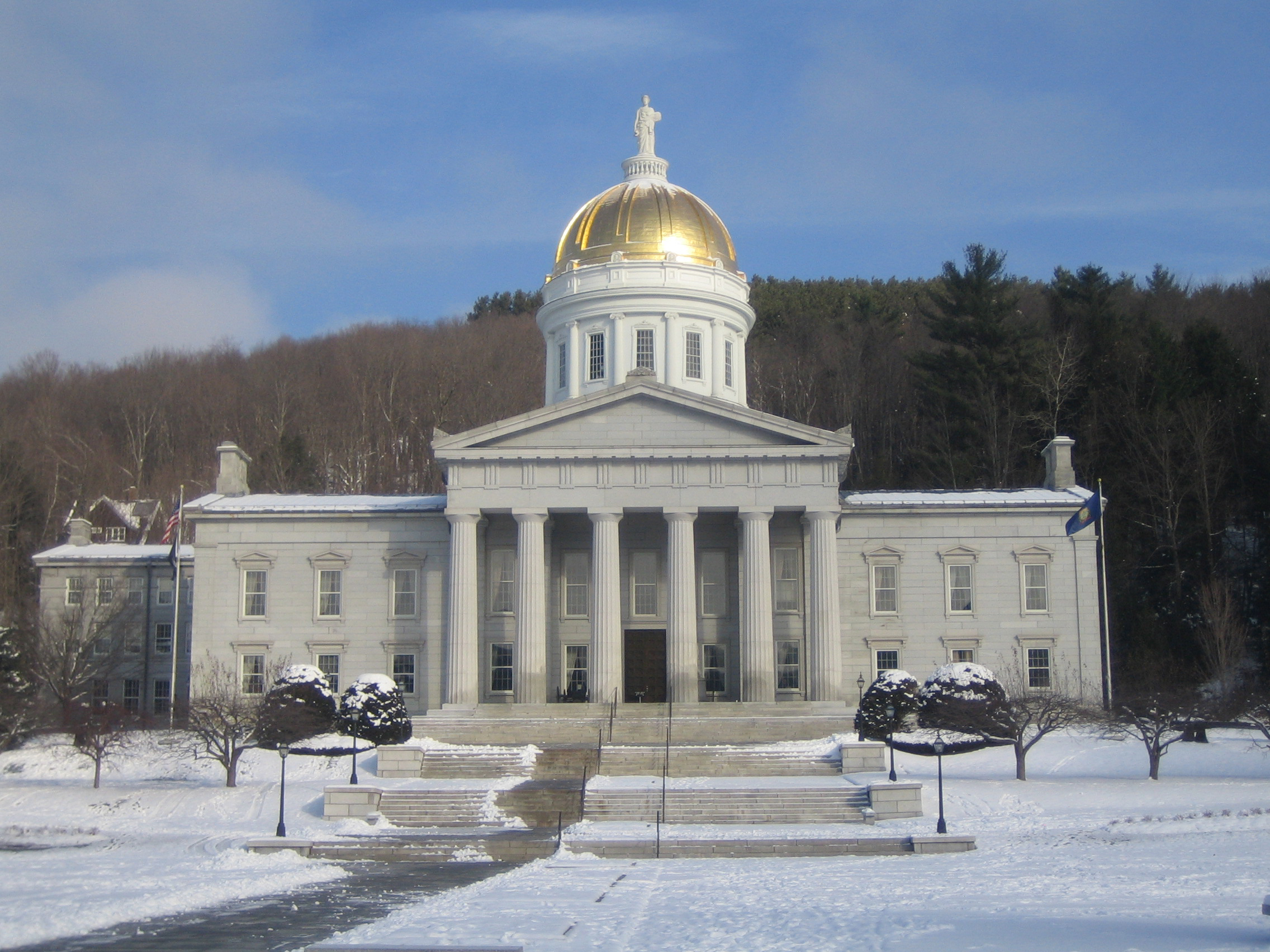 Vermont State House, December 2005.